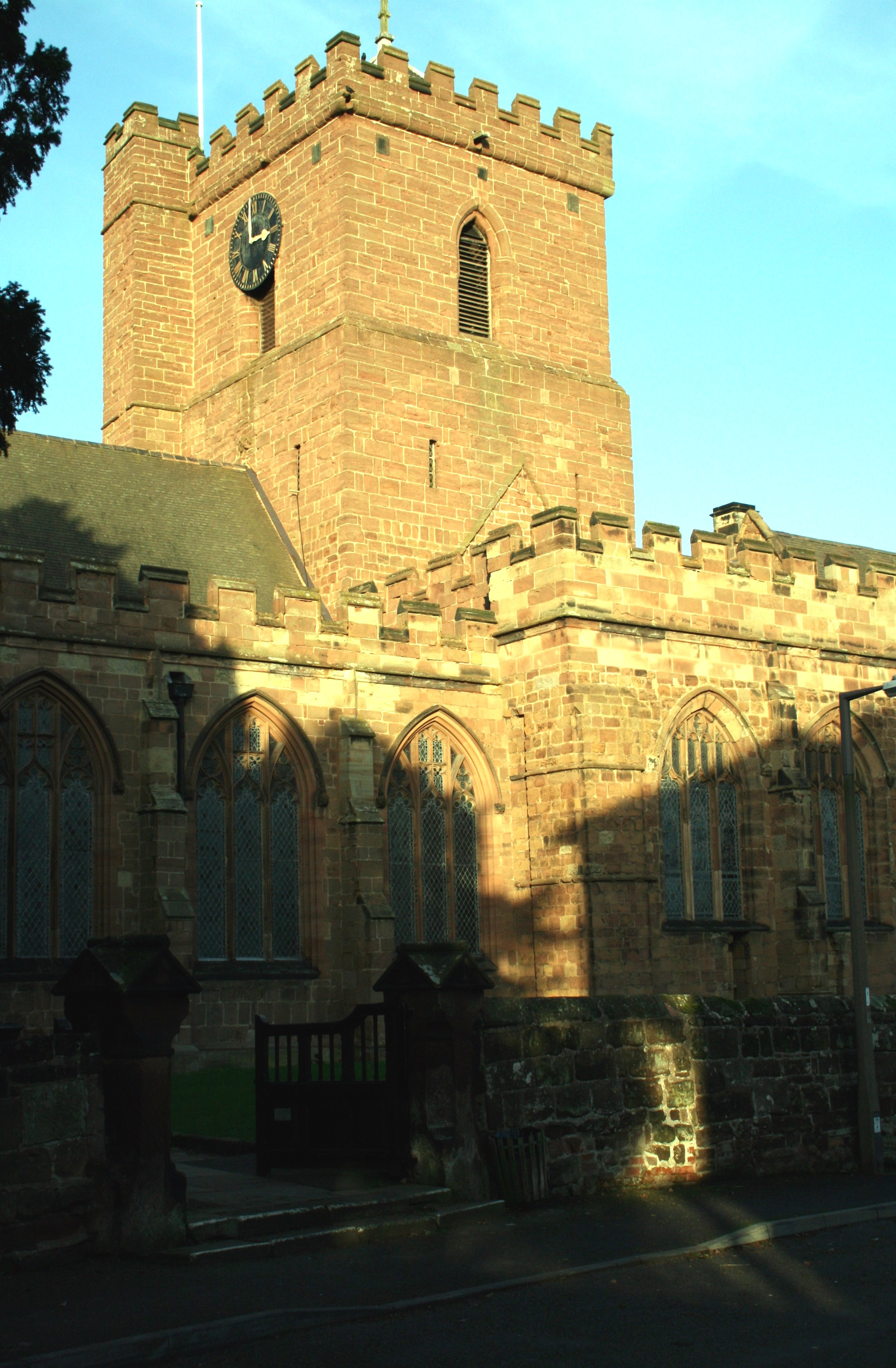 St Andrews Church, Shifnal